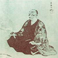 Portrait (handed down to Koizumi family, the descendant)